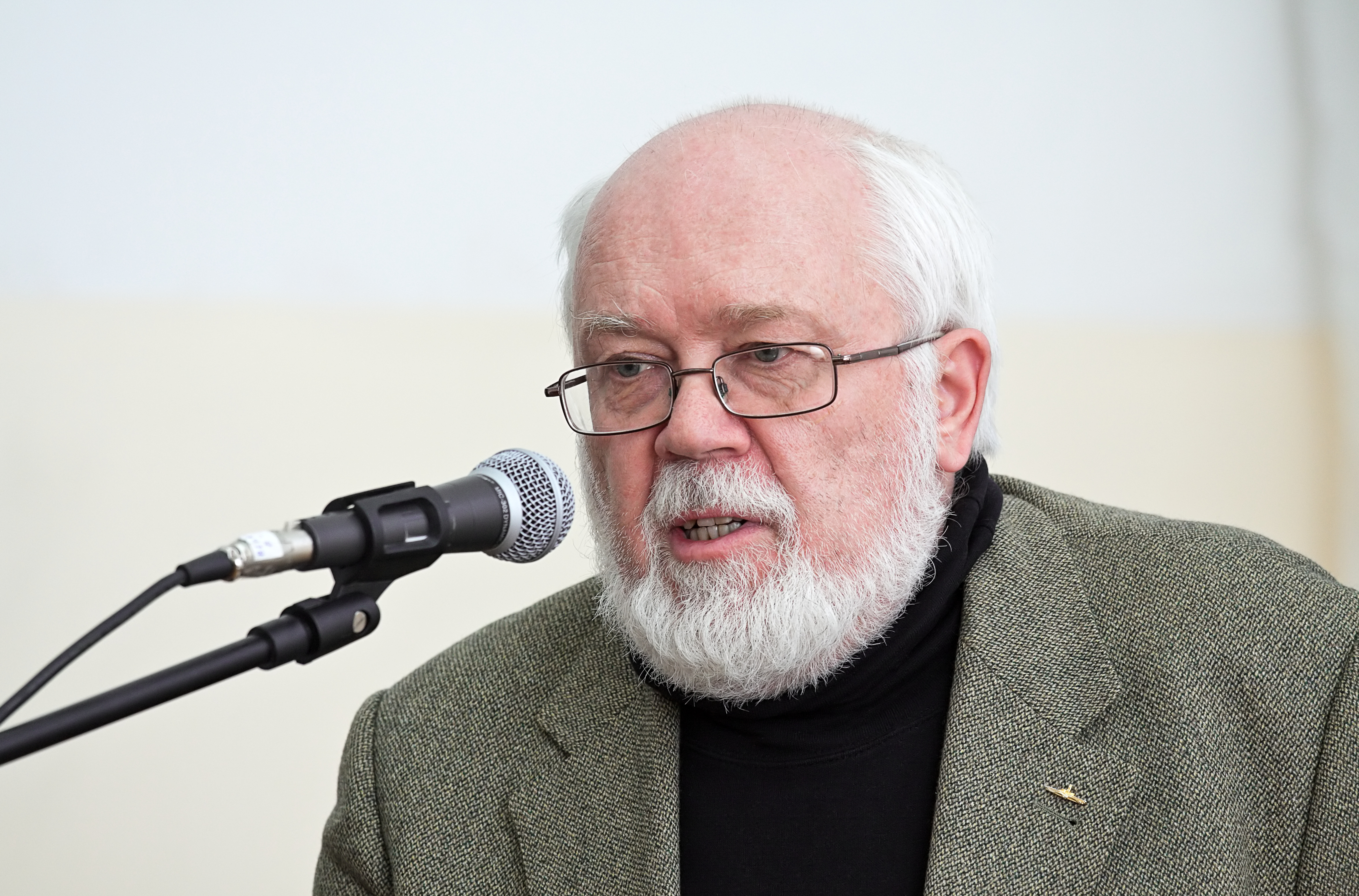 Nikolai Cherkashin — Ph. D. in history, captain of the submarine fleet, novelist.